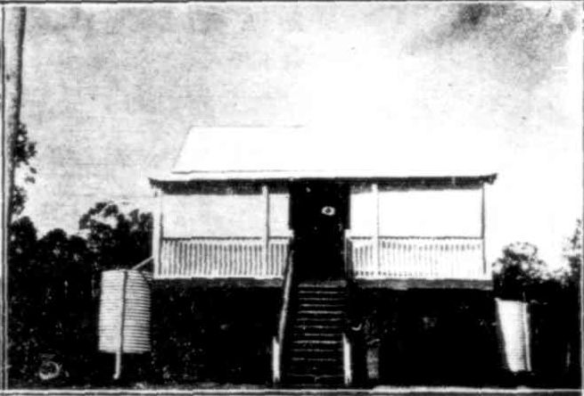 Willmott State School, teacher Miss Rankin, 1924. It was renamed East End State School in 1936.